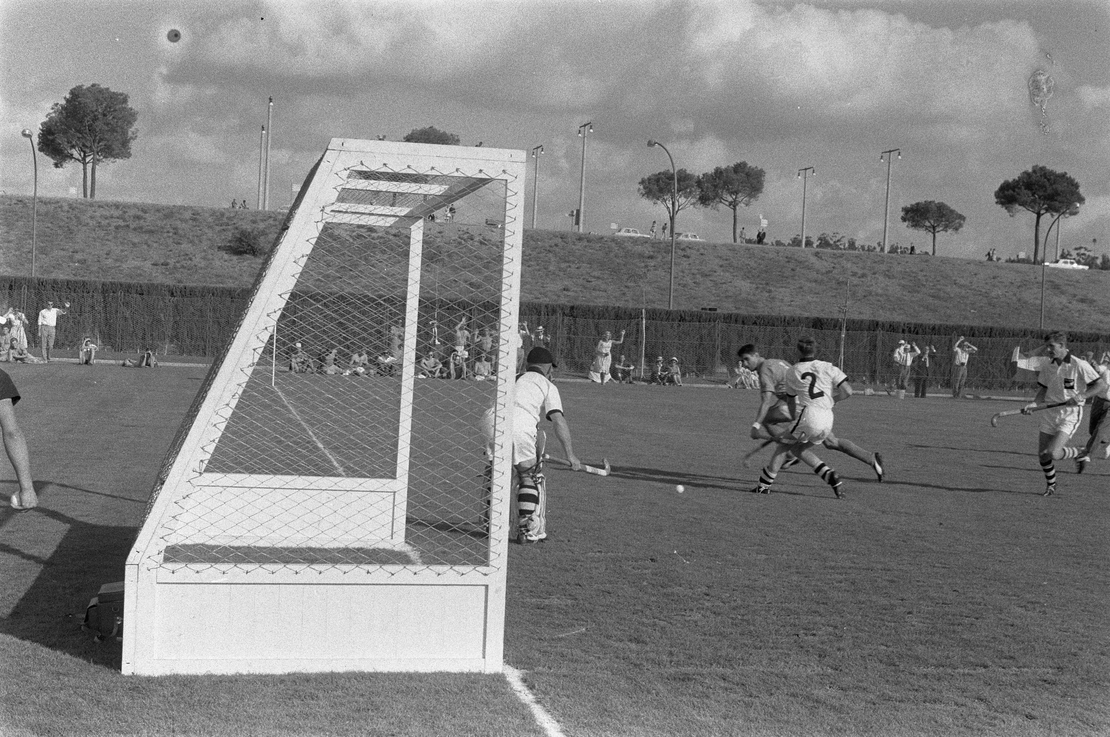 Tie-breaker field hockey match between New Zealand and the Netherlands to determine the second place in the group A of field hockey tournament at the 17th Olympic games in Rome; the match was played at the Tre Fontane Stadium and was won 2:1 by New Zealand